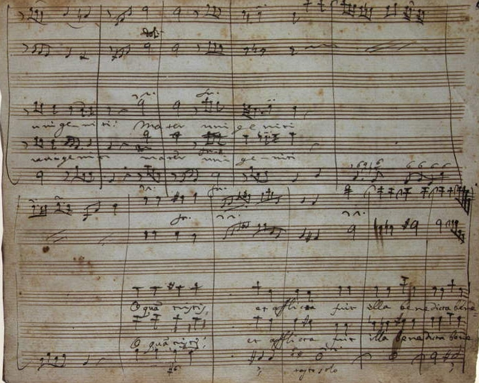 Giovanni Battista Pergolesi: Stabat Mater; autograph of third movement O quam tristis